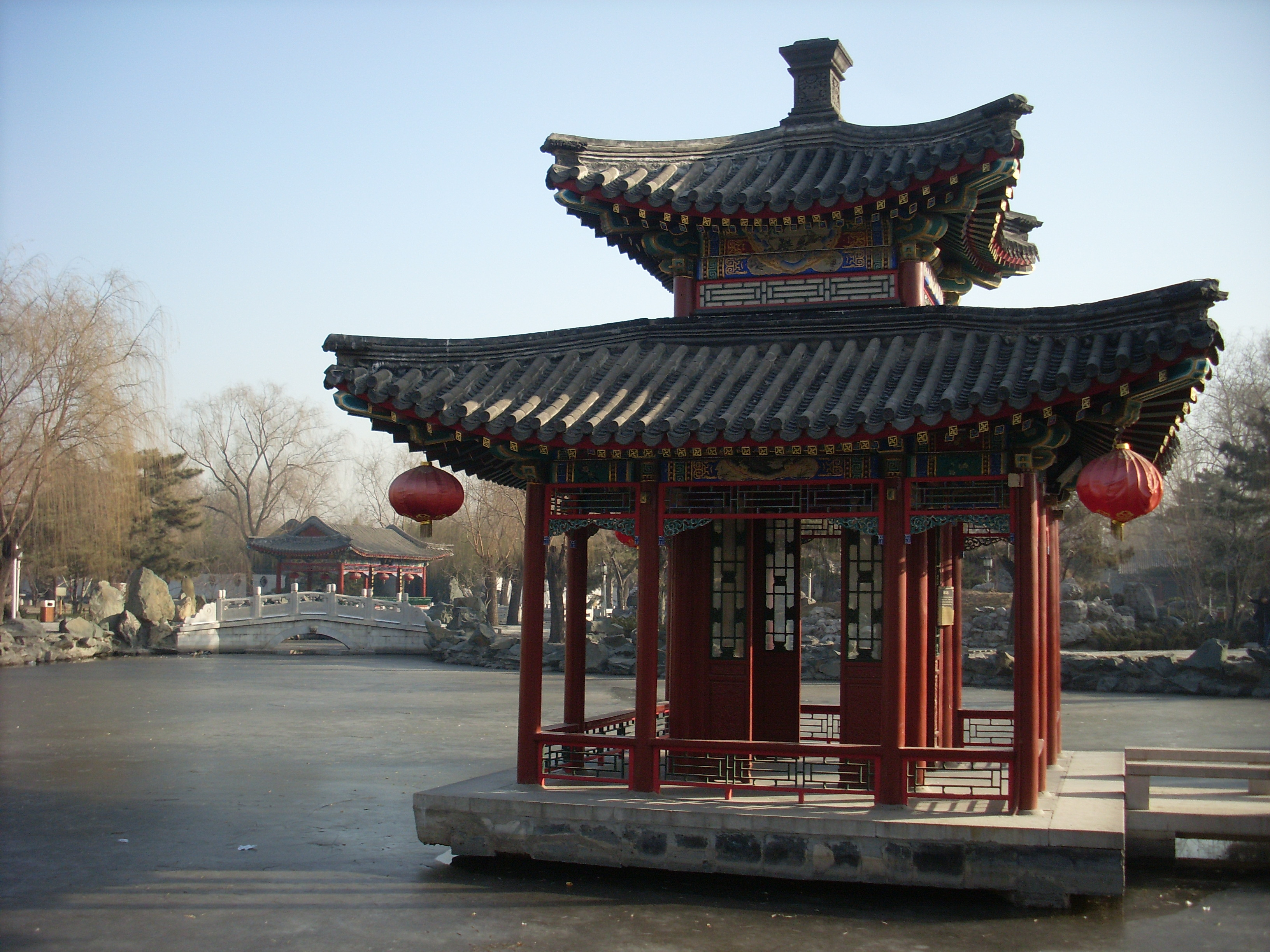 Dicuiting in Beijing Daguanyuan 中文（中国大陆）: 北京大观园滴翠亭